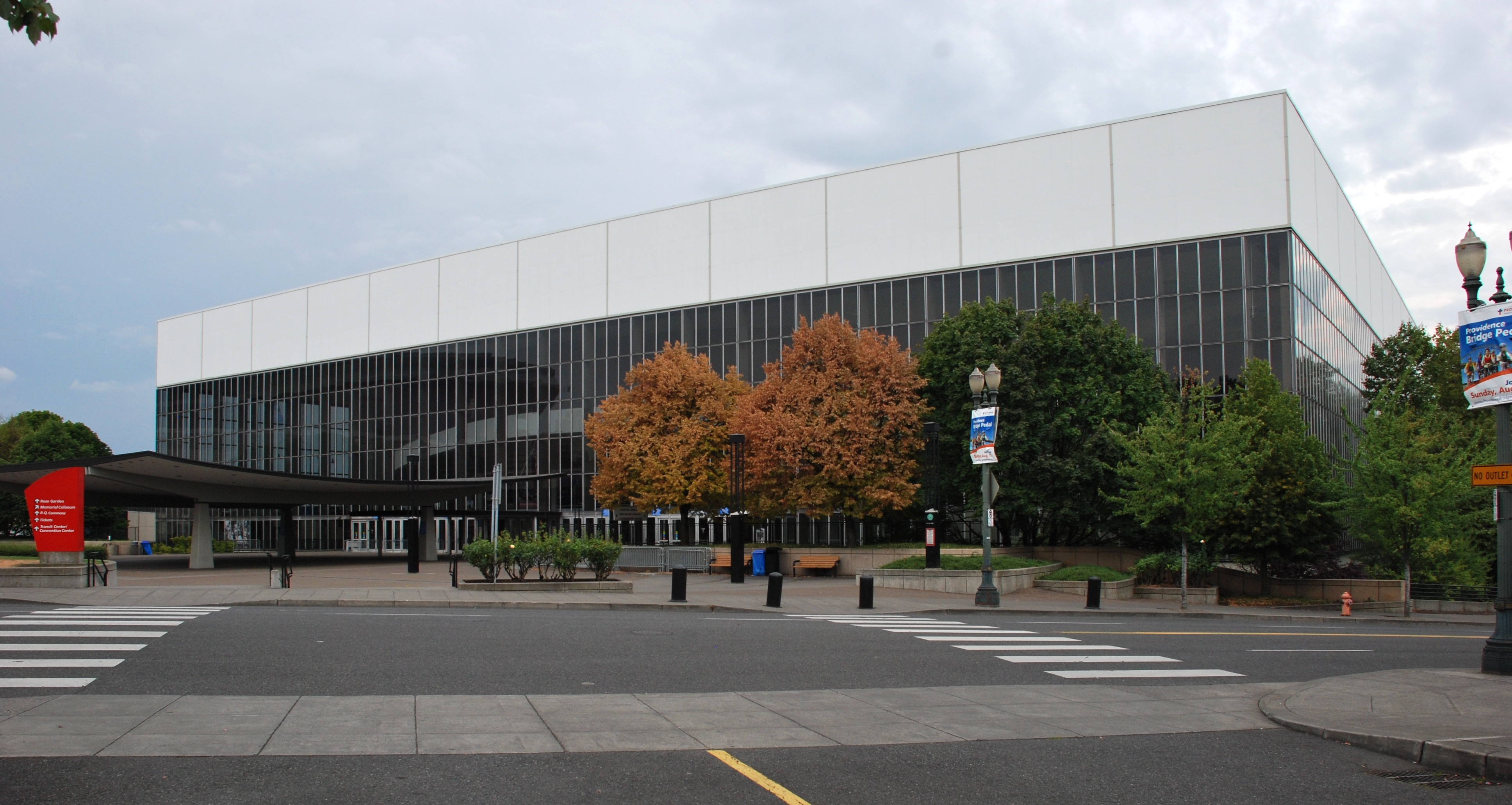 The Memorial Coliseum (renamed Veterans Memorial Coliseum in 2011), in Portland, Oregon, viewed from the north, from across the sports-theme-named street "Winning Way". The 1960 building is listed on the U.S. National Register of Historic Places.